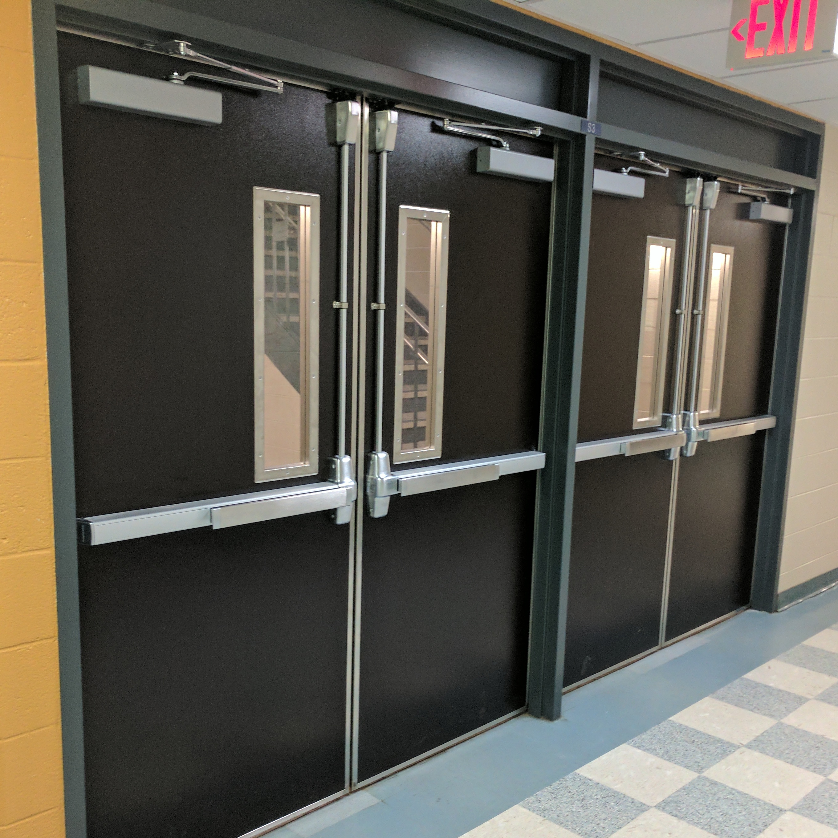 A set of doors in a US school fitted with push bars (aka. panic or crash bars) and upper Pullman latches.